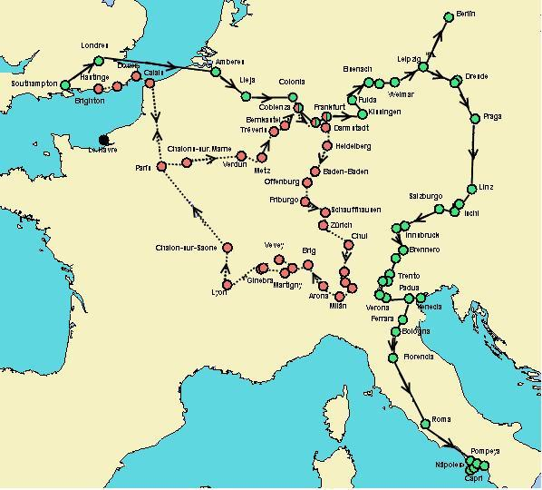 Map of Mary Shelley and her son Percy Florence Shelley's travels in 1840 and 1842-1843, taken from The Novels and Selected Works of Mary Shelley. Vol. 8. Ed. Jeanne Moskal. London: William Pickering, 1996, pg. 58-59. The red dots and dotted line indicate the 1840 trip; the green dots and solid line indicate the 1842-43 trip; dual-colored dots indicate places visited on both trips; black dots indicate places not visited but helpful for the reader.